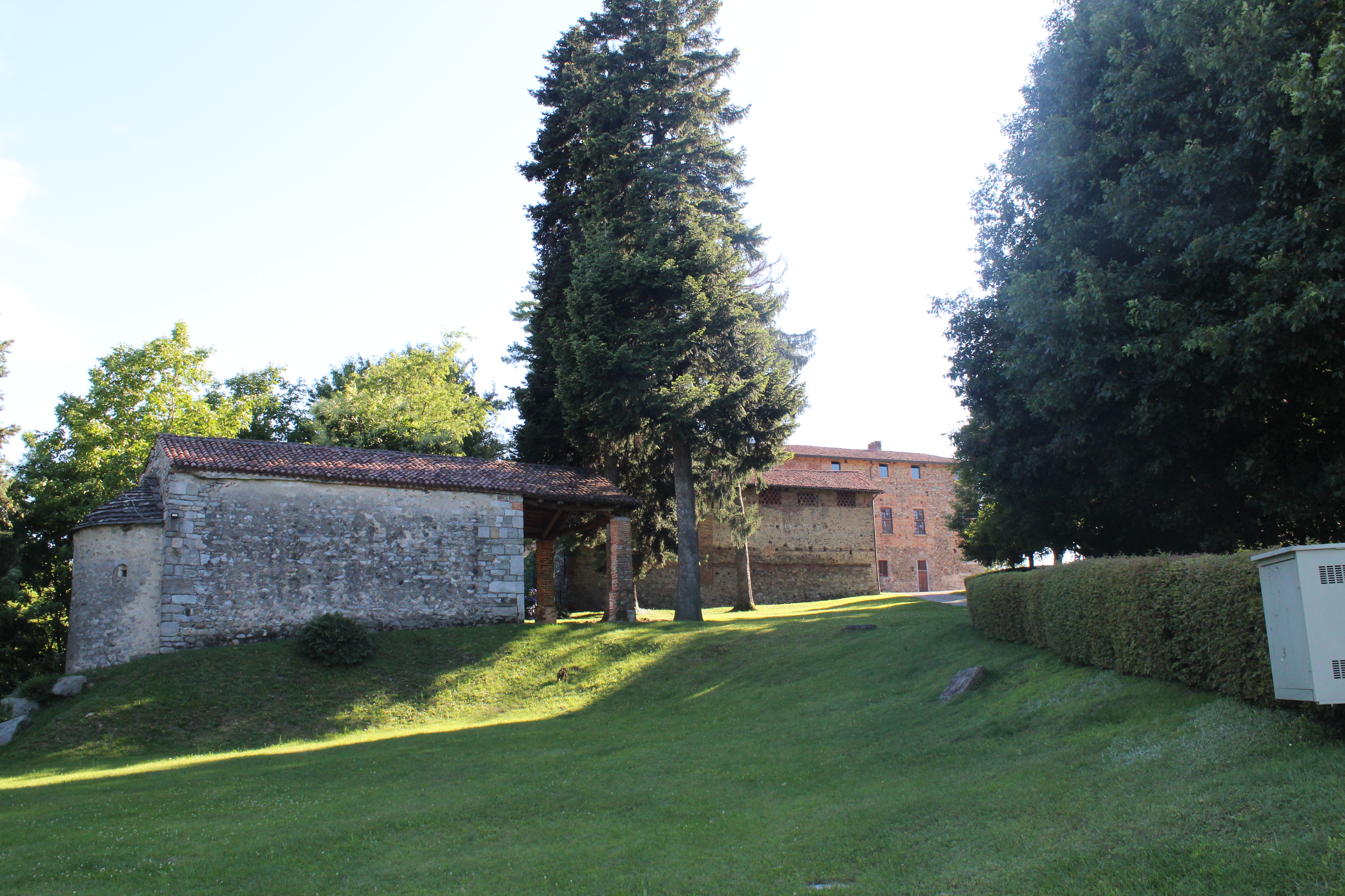 The Jerago castle is seen here from the entrance road with the San James church on the left